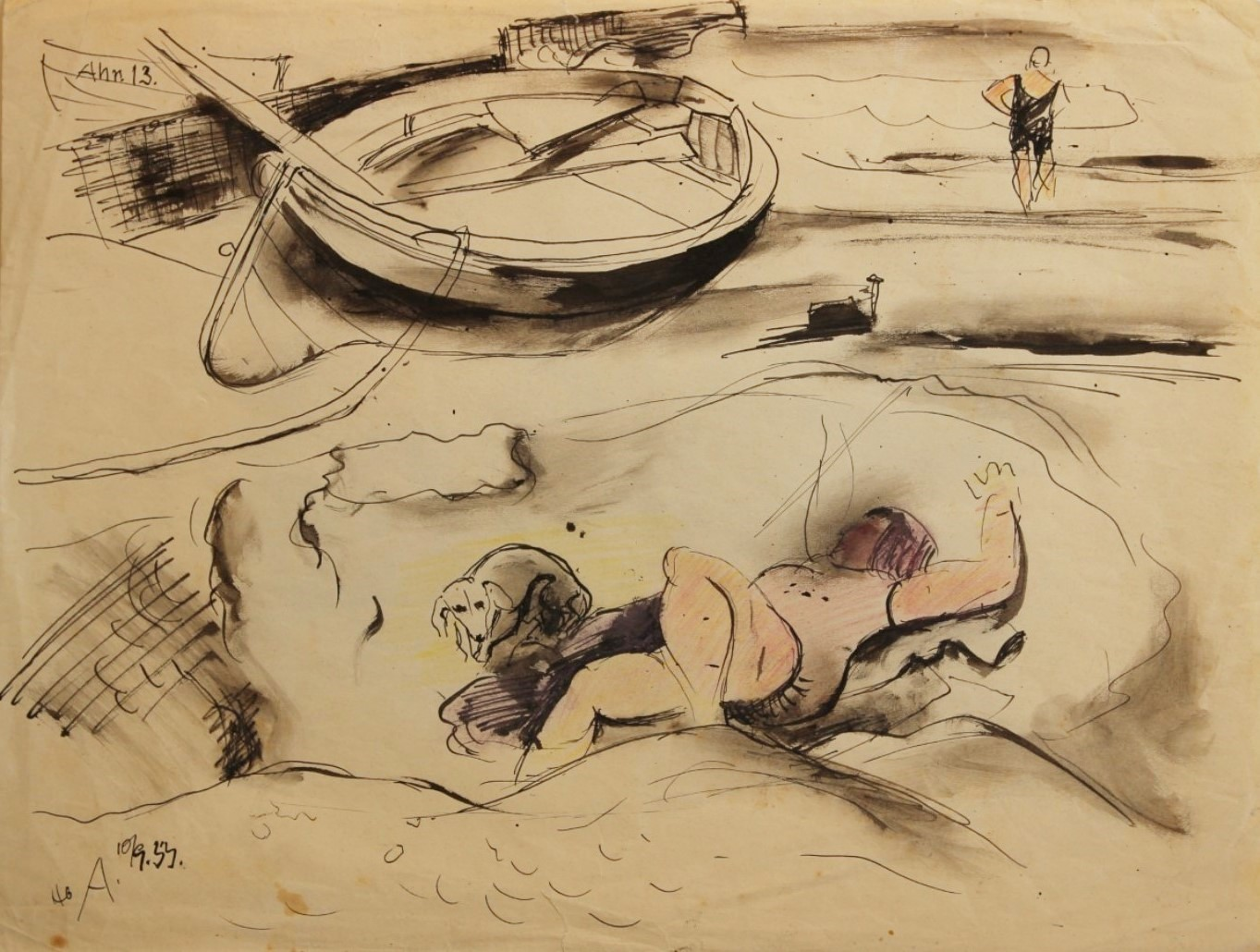 Hans Emil Oberländer - On the Ahrenshoop beach (1933), ink drawing